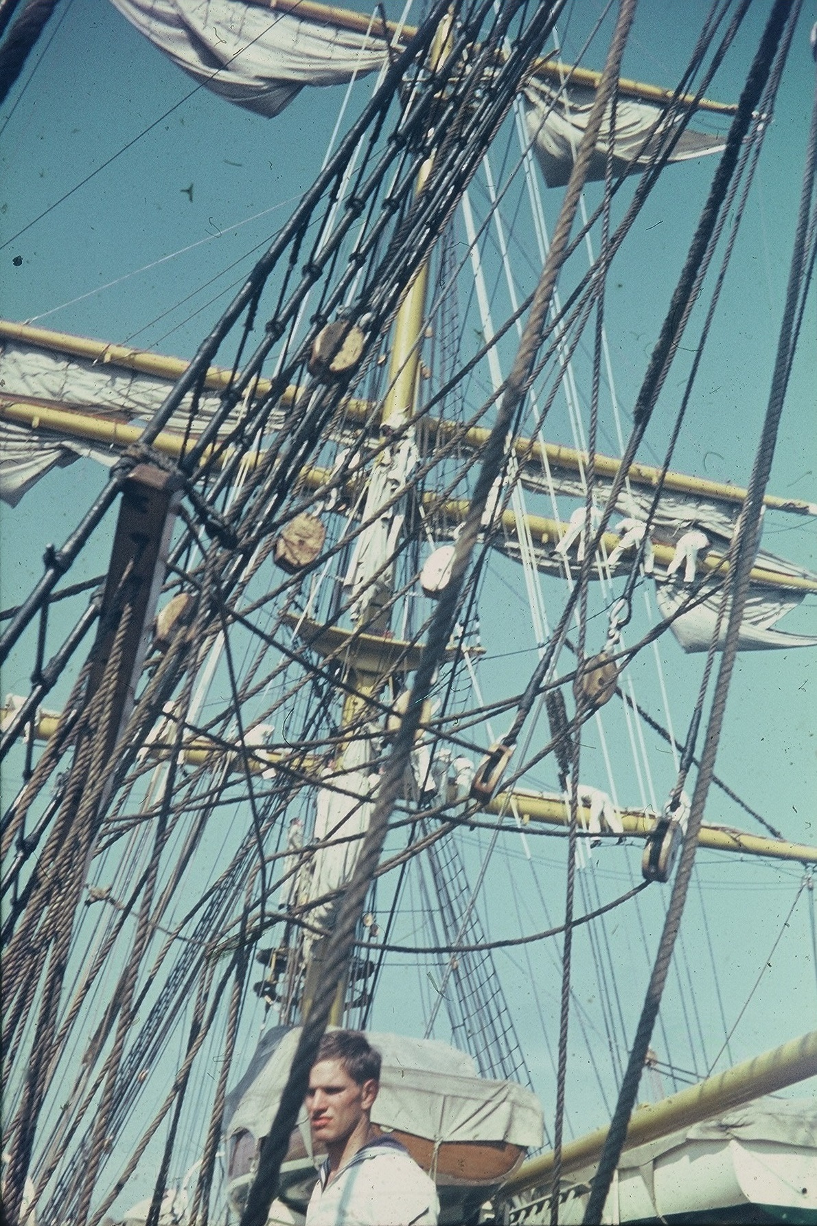 Part of the rigging of the Gorch Fock.